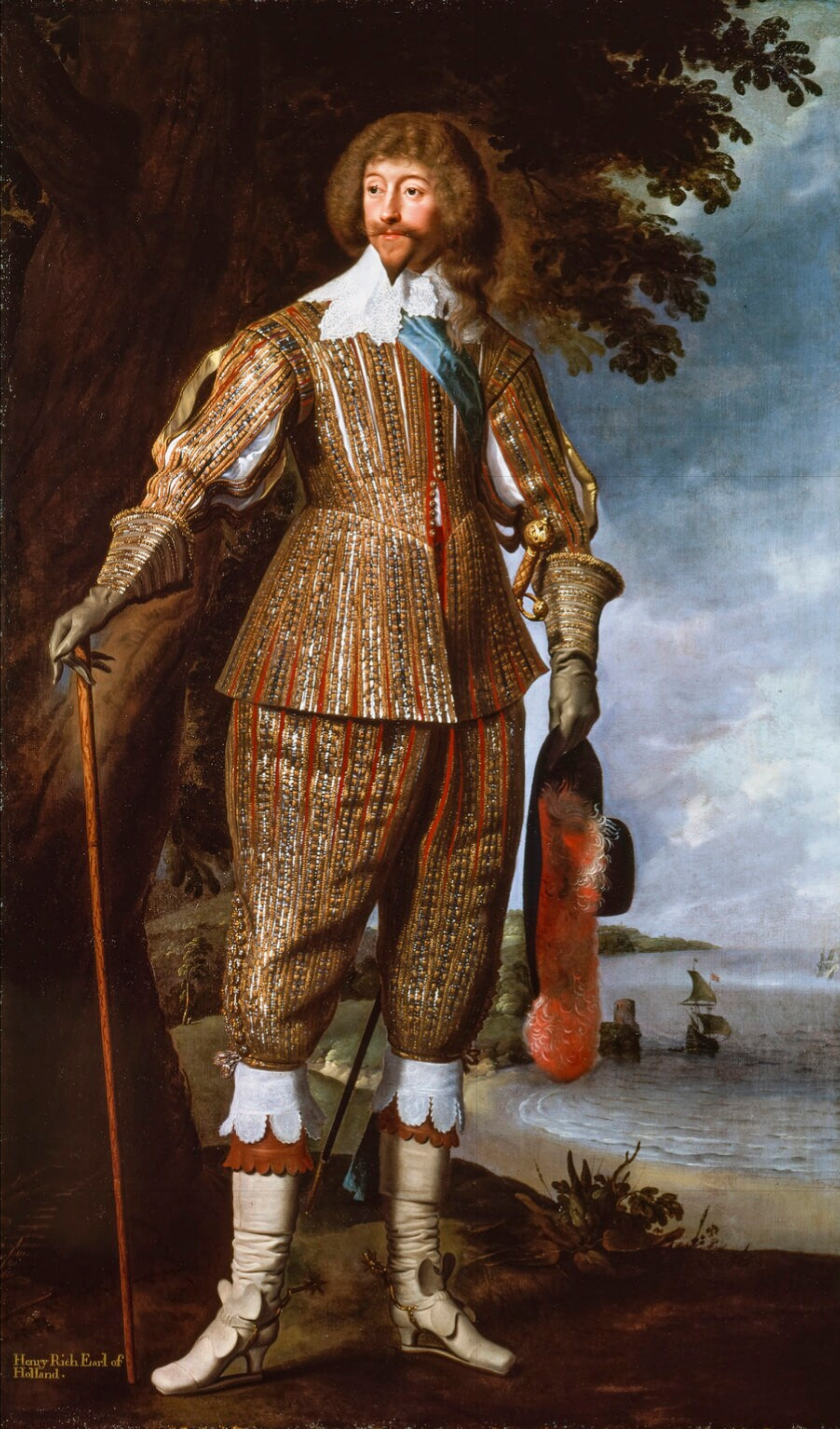 Henry Rich, 1st Earl of Holland (1590-1649)